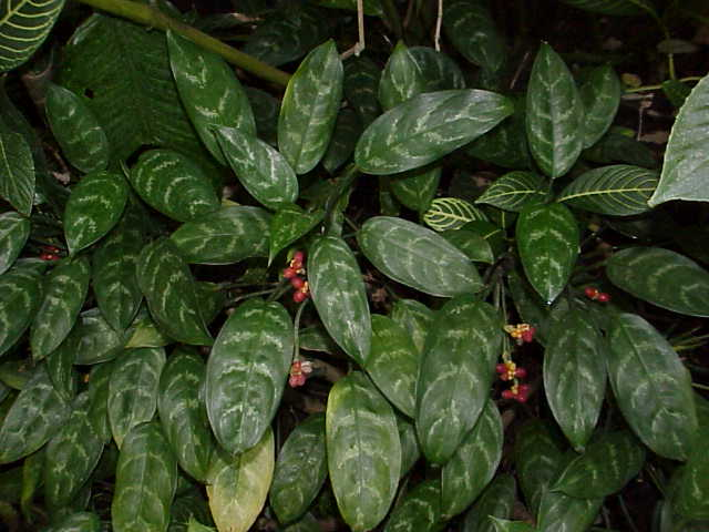 Species: Aglaonema commutatum Family: Araceae Image No. 3